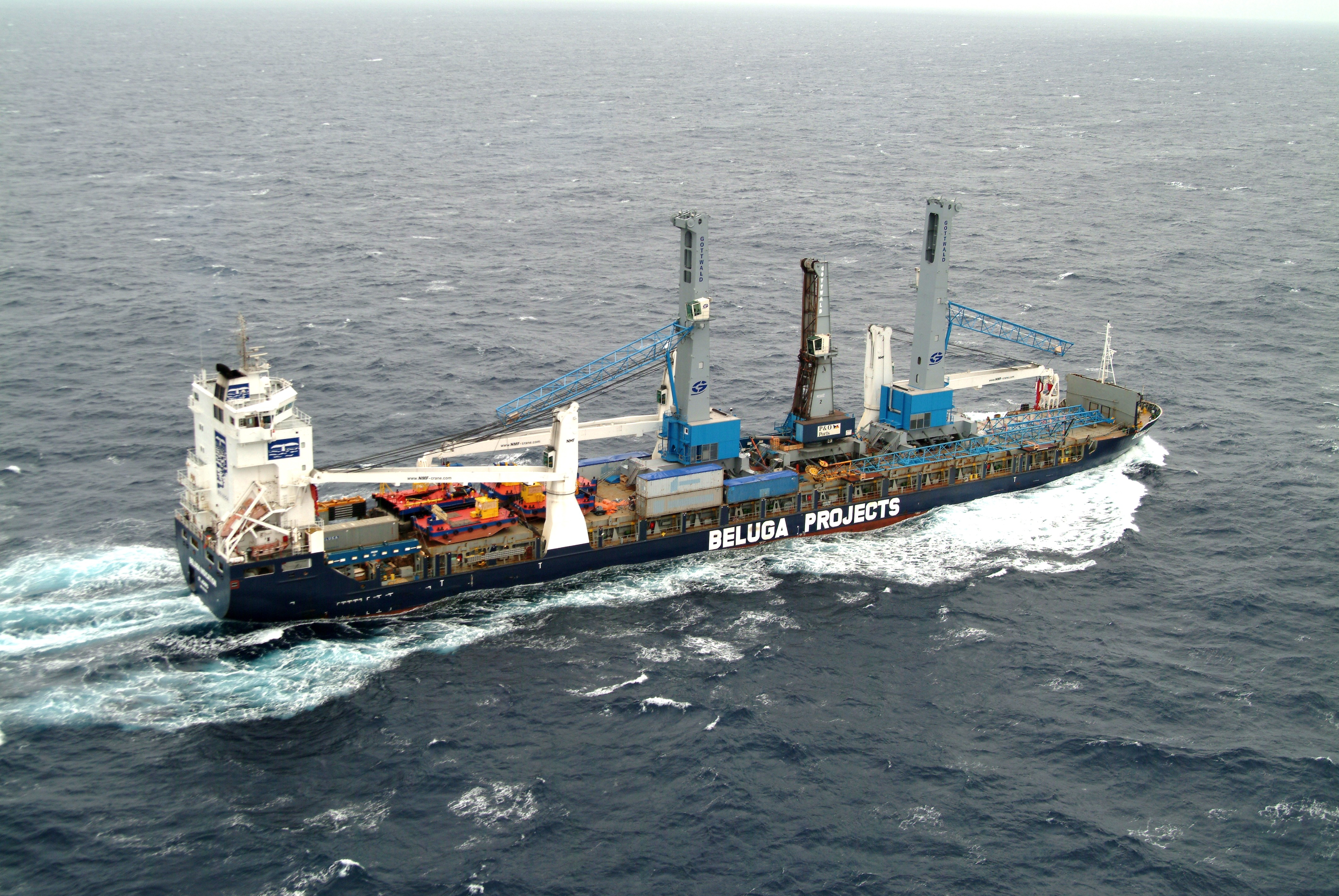 multipurpose heavy-lift project carrier MV Beluga Indication transports Gottwald harbour cranes on the ocean IMO Number: 9214563 MMSI Number: 304721000 Callsign: V2BX6 Length: 162 m Beam: 20 m